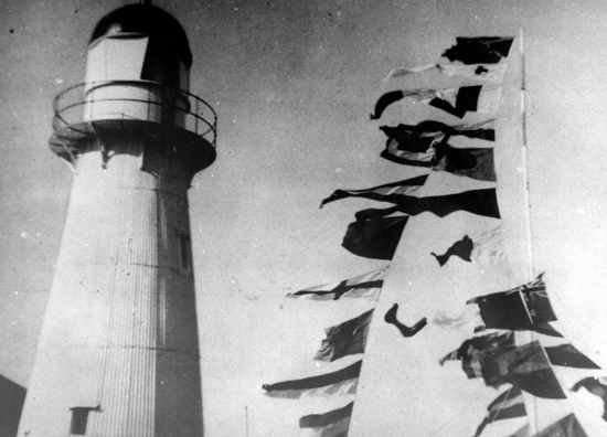 V.P. Day Celebrations at Caloundra Lighthouse, 1945